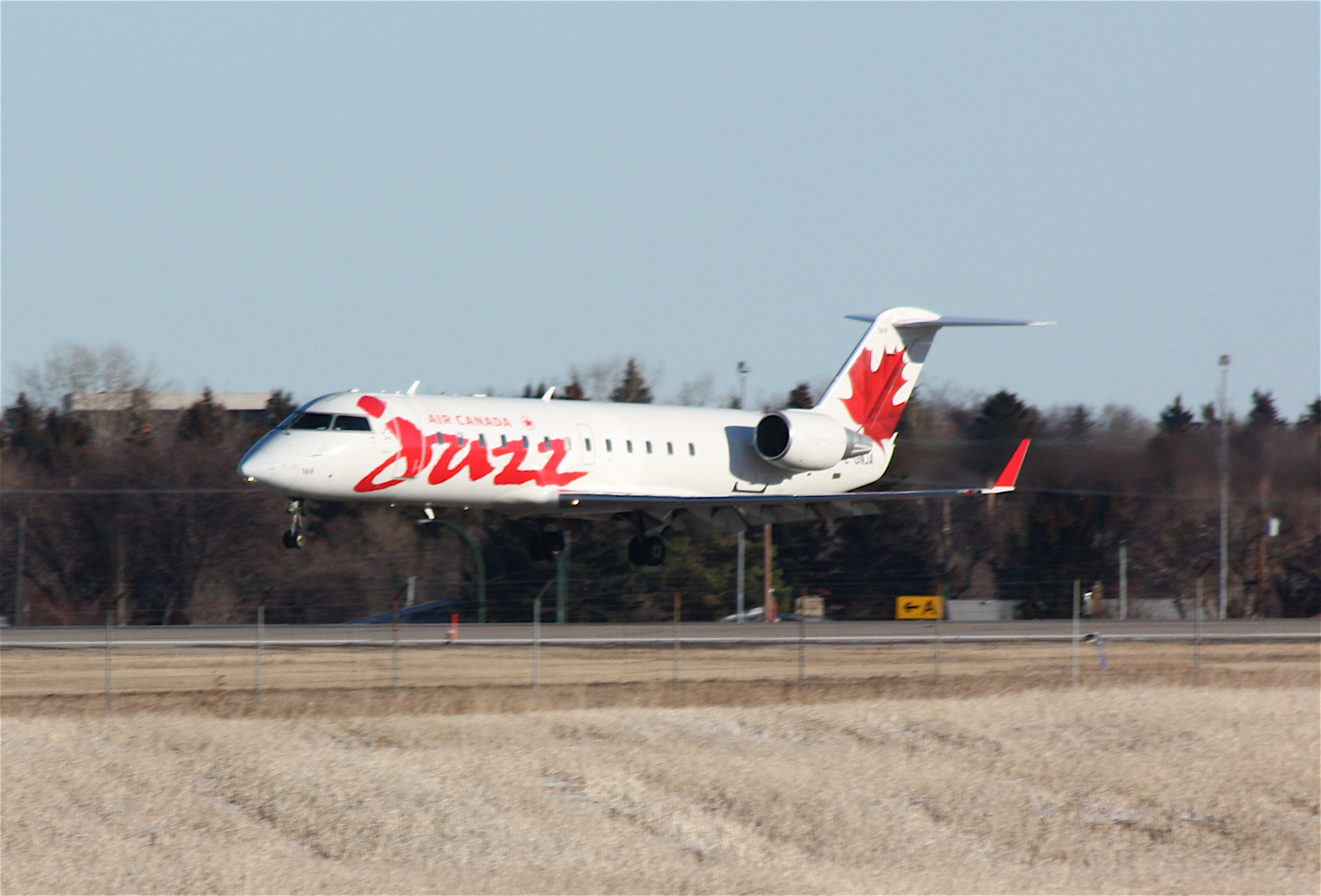 Air Canada Jazz CRJ-200 landing on runway 31 at YQR.